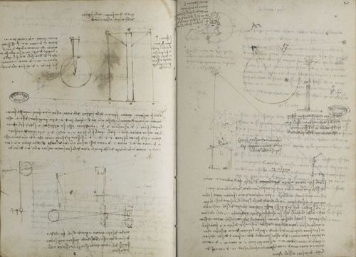 Paris Manuscript A, Folio 20v and 21r, by Leonardo da Vinci, Institut de France